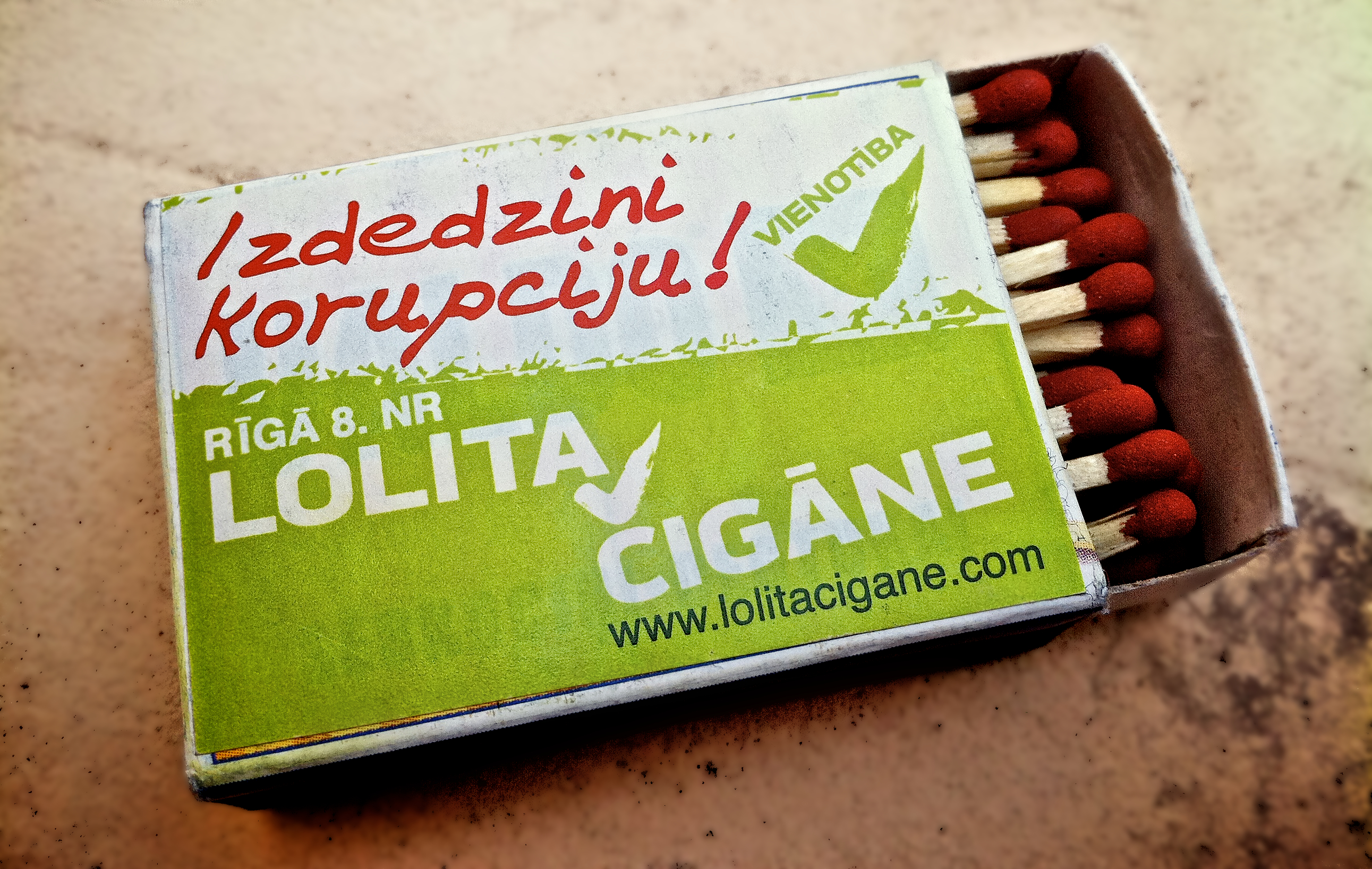 A matchbox made for the purpose of advertising Lolita Čigāne's candidacy for Deputy of 10th Saeima.